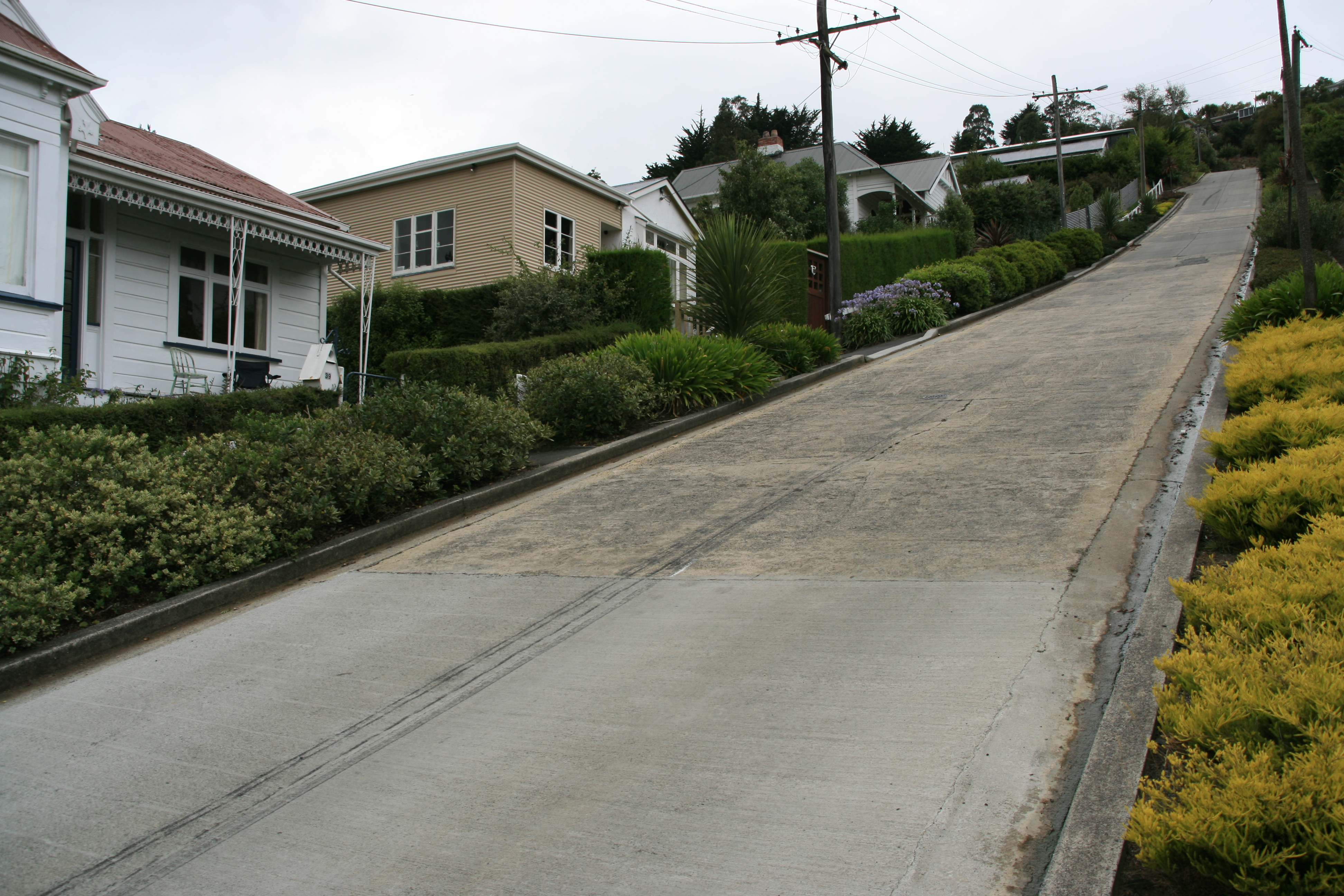 Baldwin Street, Dunedin, New Zealand. Coordinates approximate.